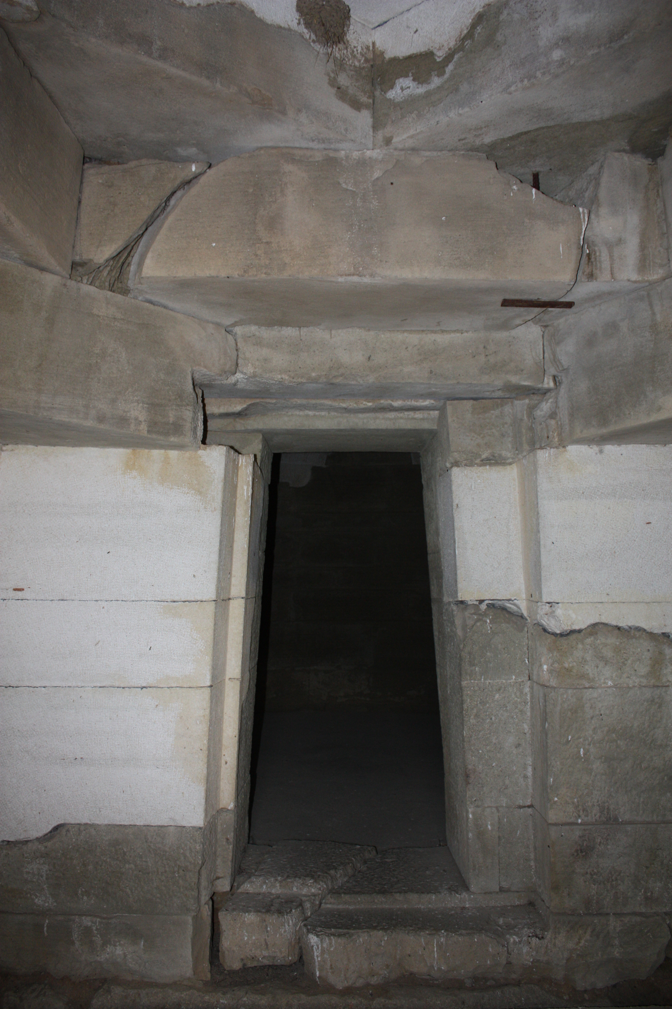 Tracian tomb interior door, Strelcha, Bulgaria